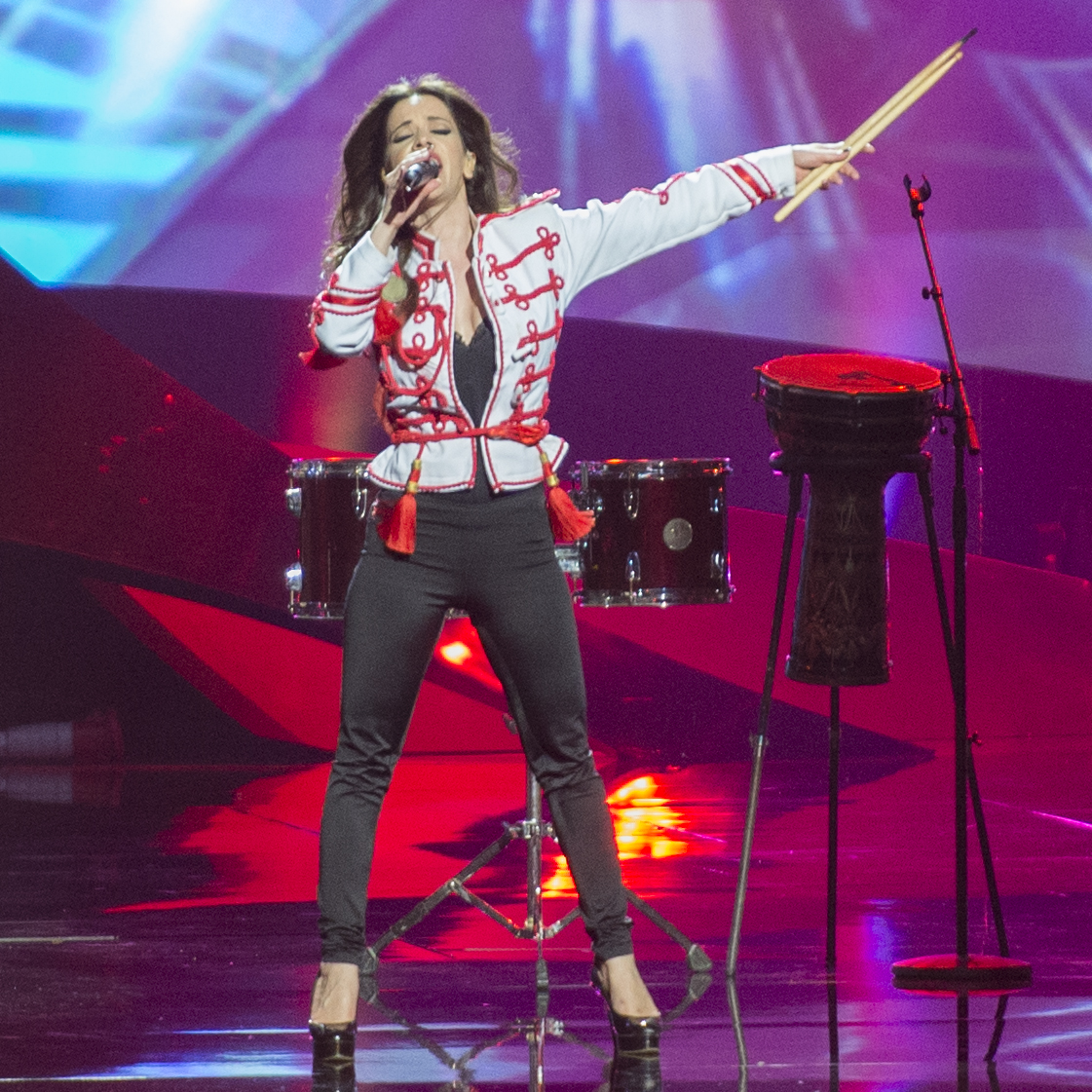 Elitsa Todorova and Stoyan Yankoulov representing Bulgaria with the song "Samo shampioni" (Само шампиони) during the second dress rehearsal of the second semi final of the Eurovision Song Contest 2013 in Malmö. (Help translate this text)